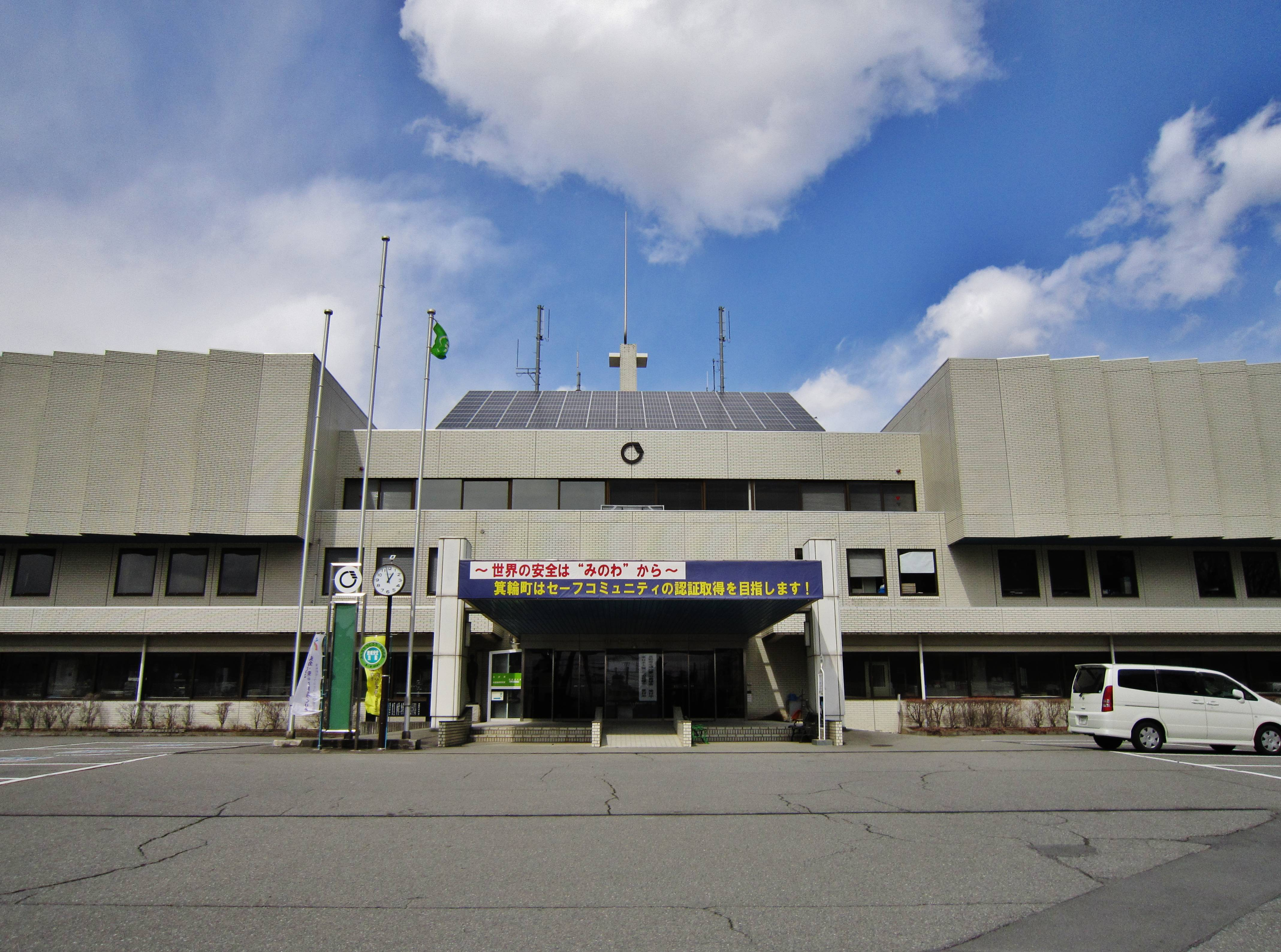 Minowa town office.